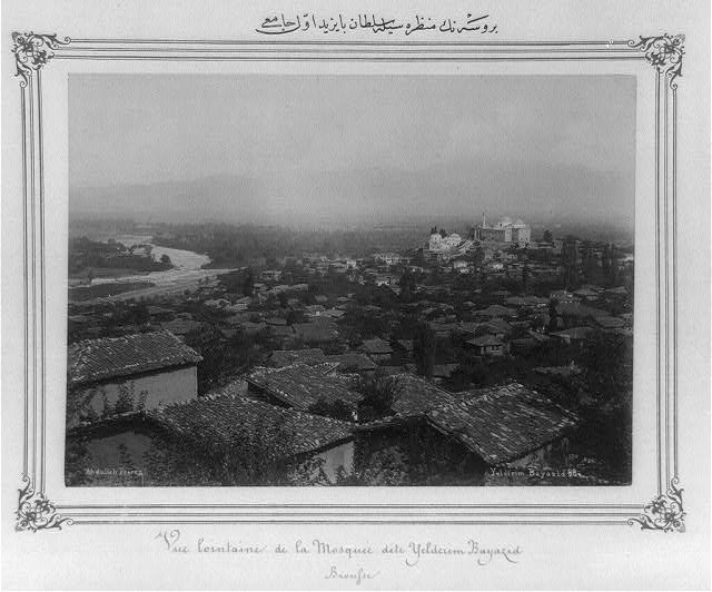 View of Bursa and the Sultan Bayezid I Camii between 1880 and 1893